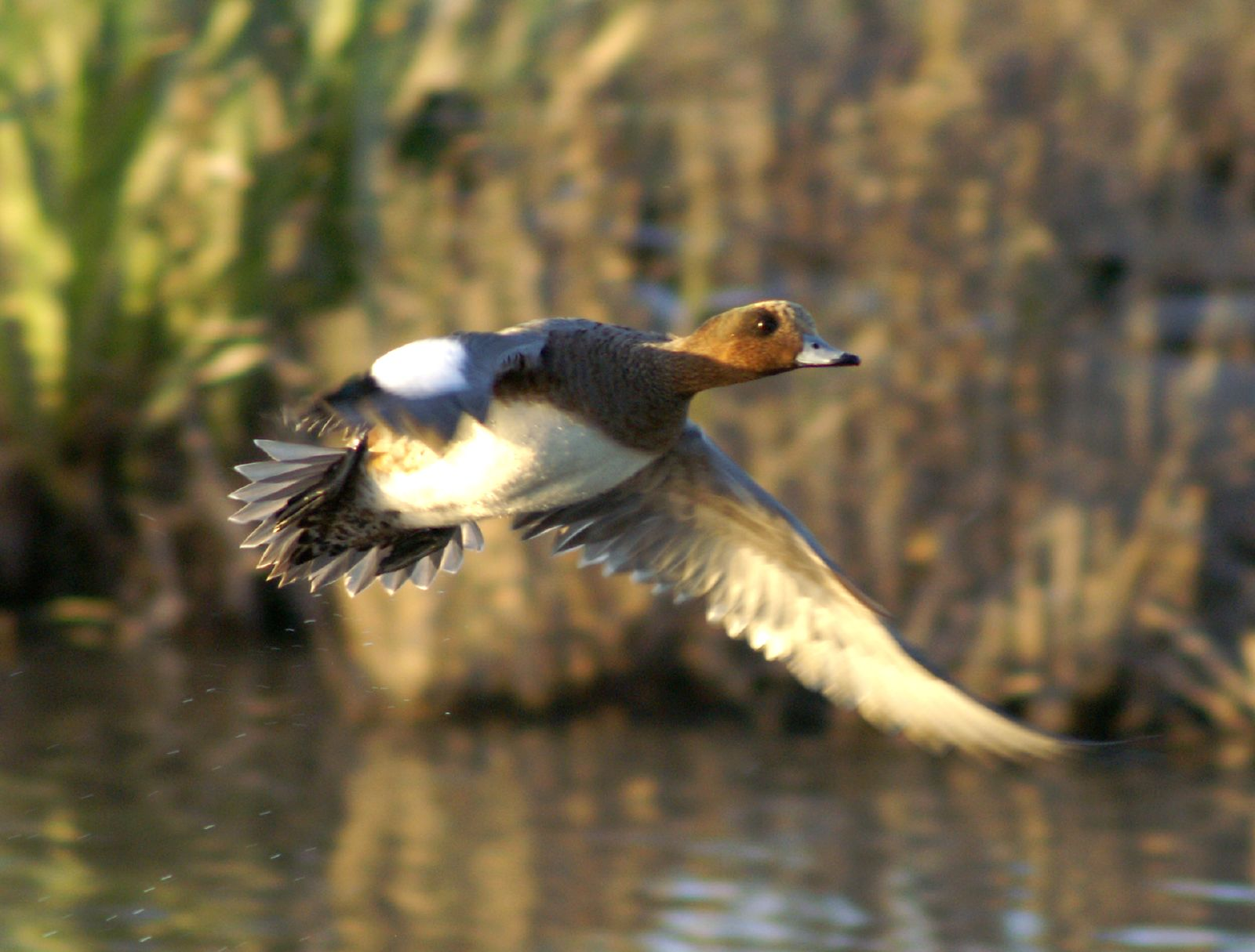 Wigeon (Anas penelope) drake in flight